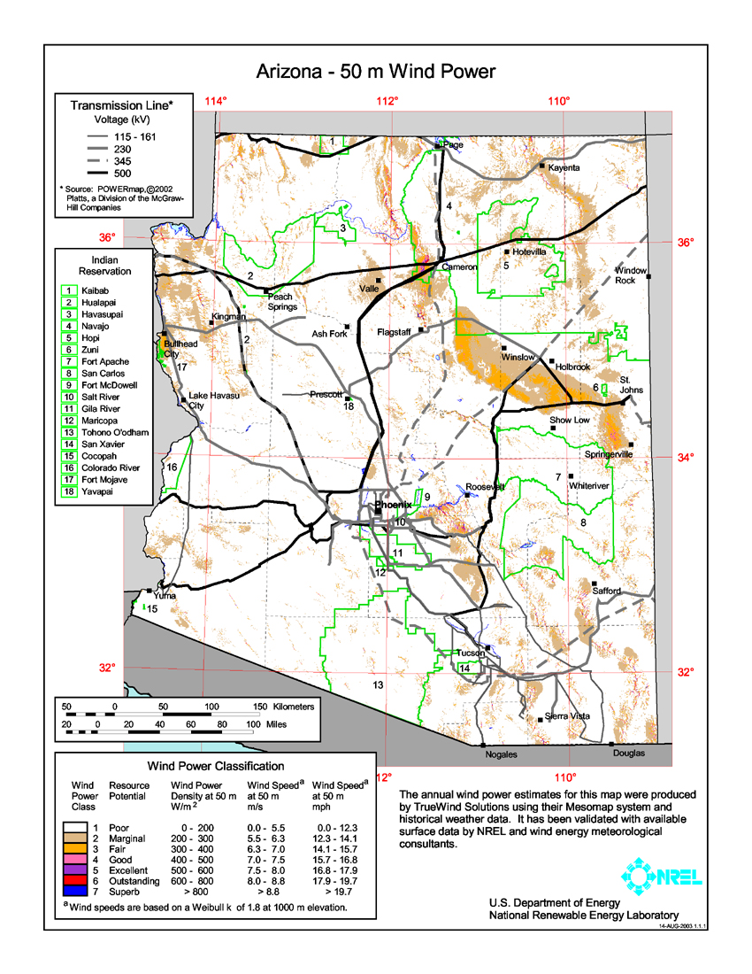 Average annual wind power distribution for Arizona, 50m height above ground, also showing location of existing electrical transmission lines